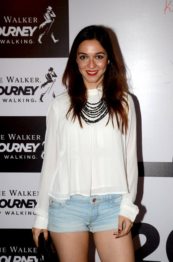 Nauheed Cyrusi at Johnnie Walker's 'The Journey' event in Dec 14, 2015